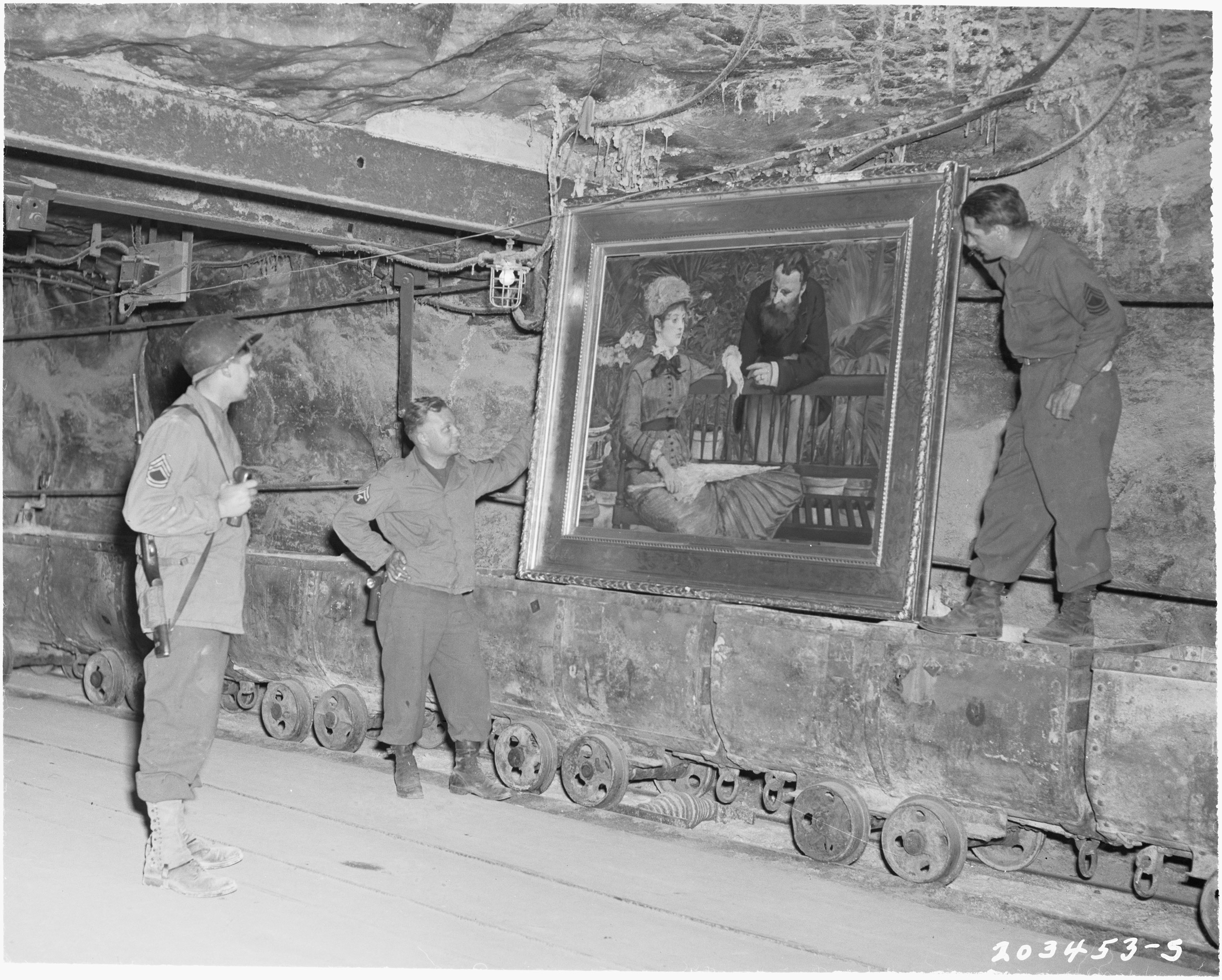 US soldiers with Manet's In the Conservatory/Im Wintergarten/Dans la Serre 04/25/1945. A work not looted, but state property since 1896, - Stored by Germany by the end of WWII in a Mine. (NARA: "Original caption: A painting by the French Impressionist Edouard Manet, titled "Wintergarden", discovered in the vault at Merkers."